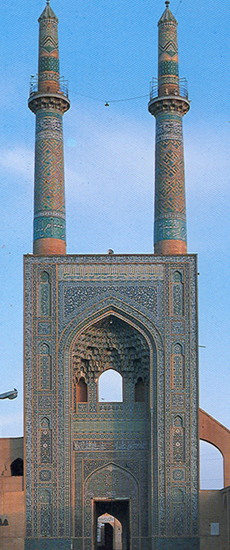 Jame'h Mosque - Yazd - Iran Photo by : Zereshk Source : Image:Yazd-jame.jpg